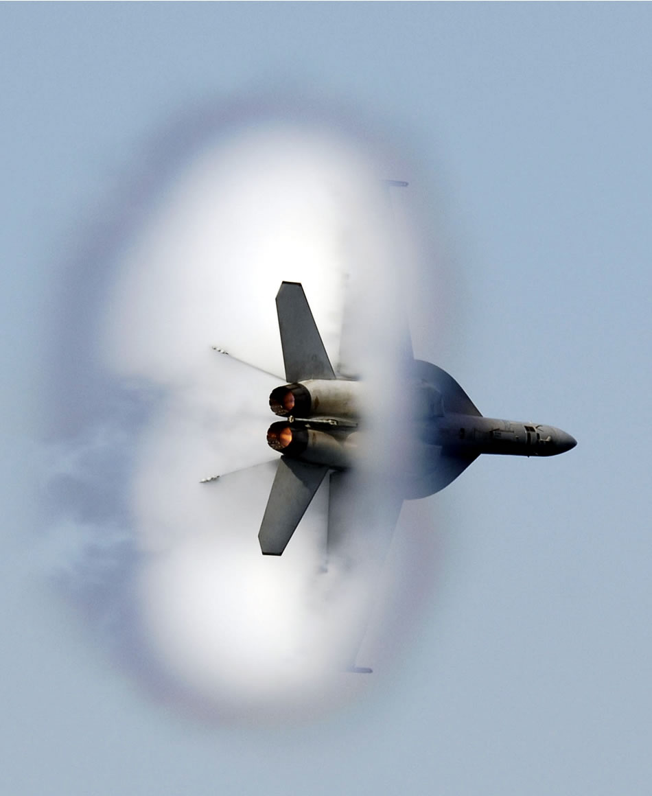 An F/A-18F Super Hornet assigned to the "Diamondbacks" of Strike Fighter Squadron One Zero Two (VFA-102) completes a supersonic flyby as part of an air power demonstration for visitors aboard USS Kitty Hawk (CV 63), which is off the coast of Southern Japan.